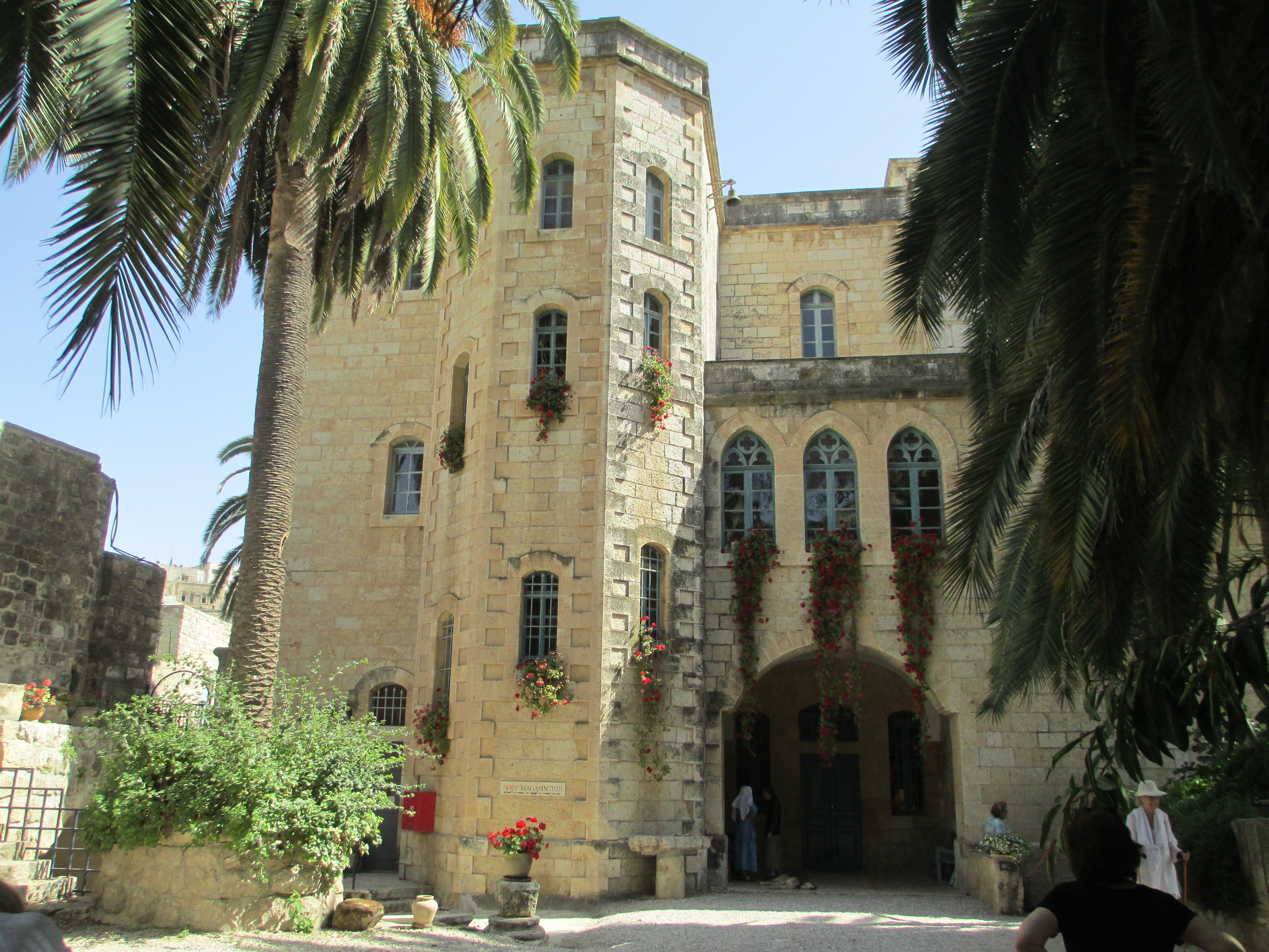 Benedictine monastery in Abu Ghosh